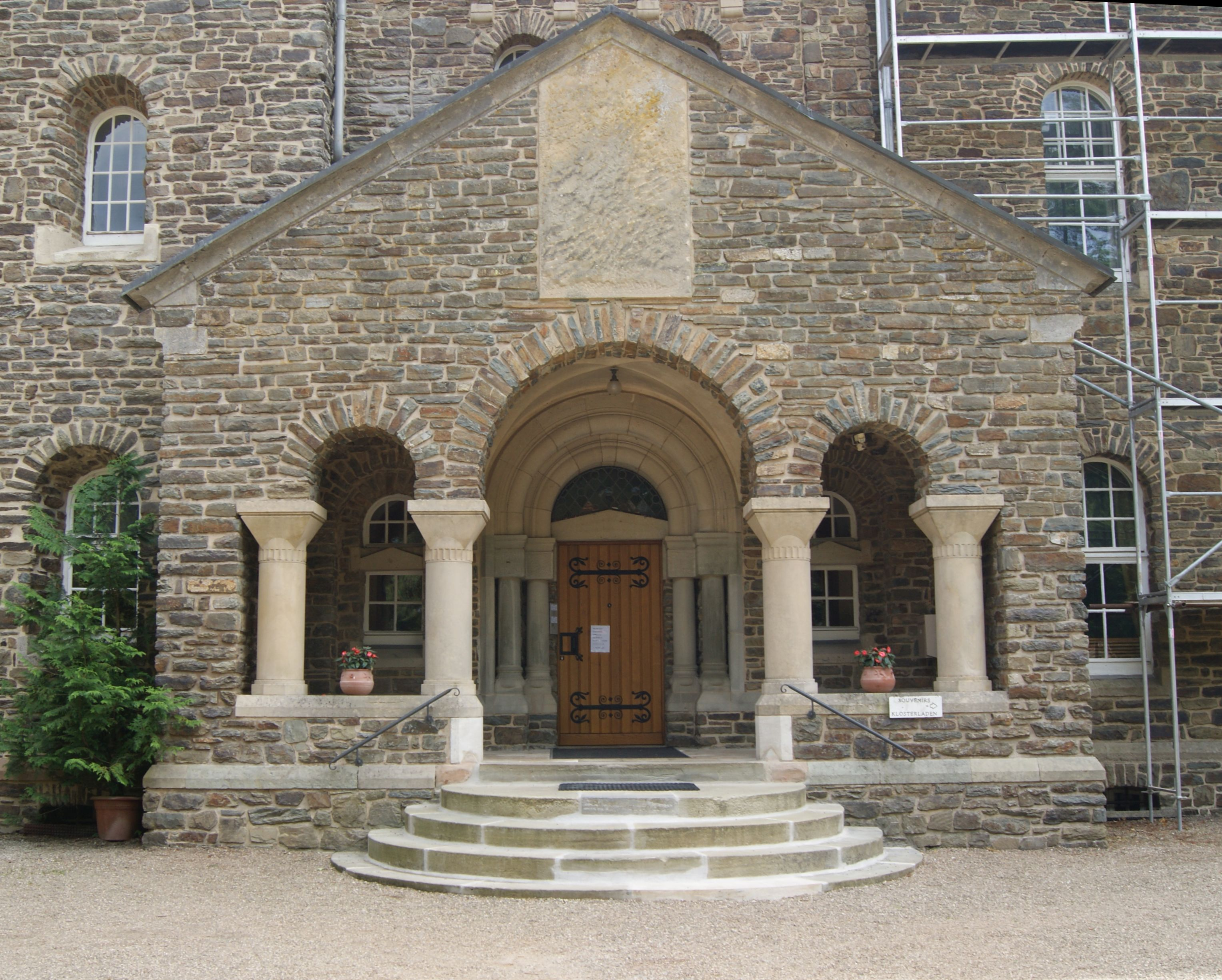 Clervaux Abbey - Impressions.